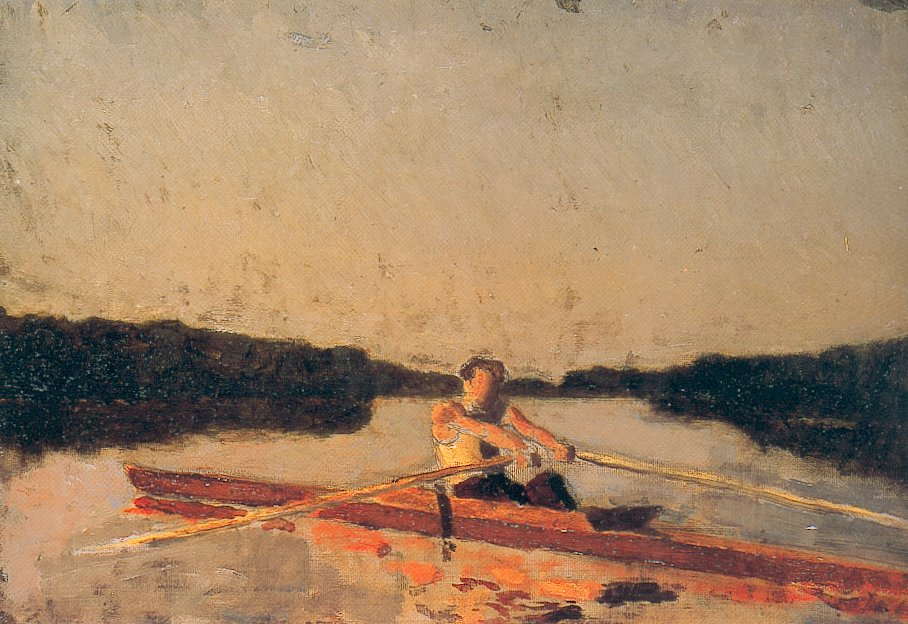 Sketch of Max Schmitt in a Single Scull by Thomas Eakins